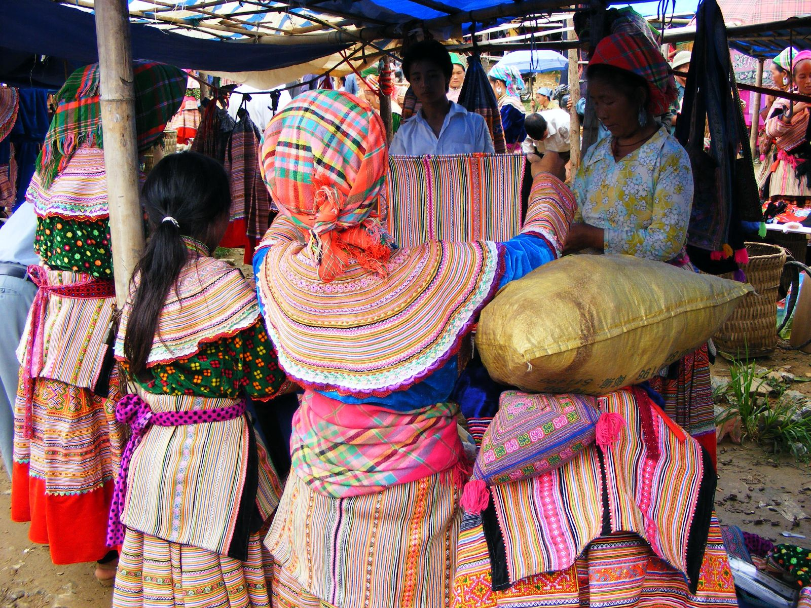 Local Bac Ha villagers shopping for more colorful clothing at the market